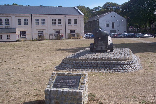 Canon in front of Chatham Library On the grassed area in front of the Gun Wharf Library in Chatham. The plaque in front of the cannon reads 'City of Rochester upon Medway. These Naval Cannon were excavated during the construction of the new river wall at Riverside in 1993. They have been mounted on new carriages desgned to closely represent their original carriages. This cannon is an 18 pounder and had a range of approximately 3500 yards, it was cast in Finsprong, Sweden in 1783 for the Dutch Navy and would have come from a captured ship for probable re-use abroad a British vessel. The other two cannon are 12 pounders of British manufacture and both carry the royal cypher of King George III 1760-1820 They were probably cast prior to 1790.'